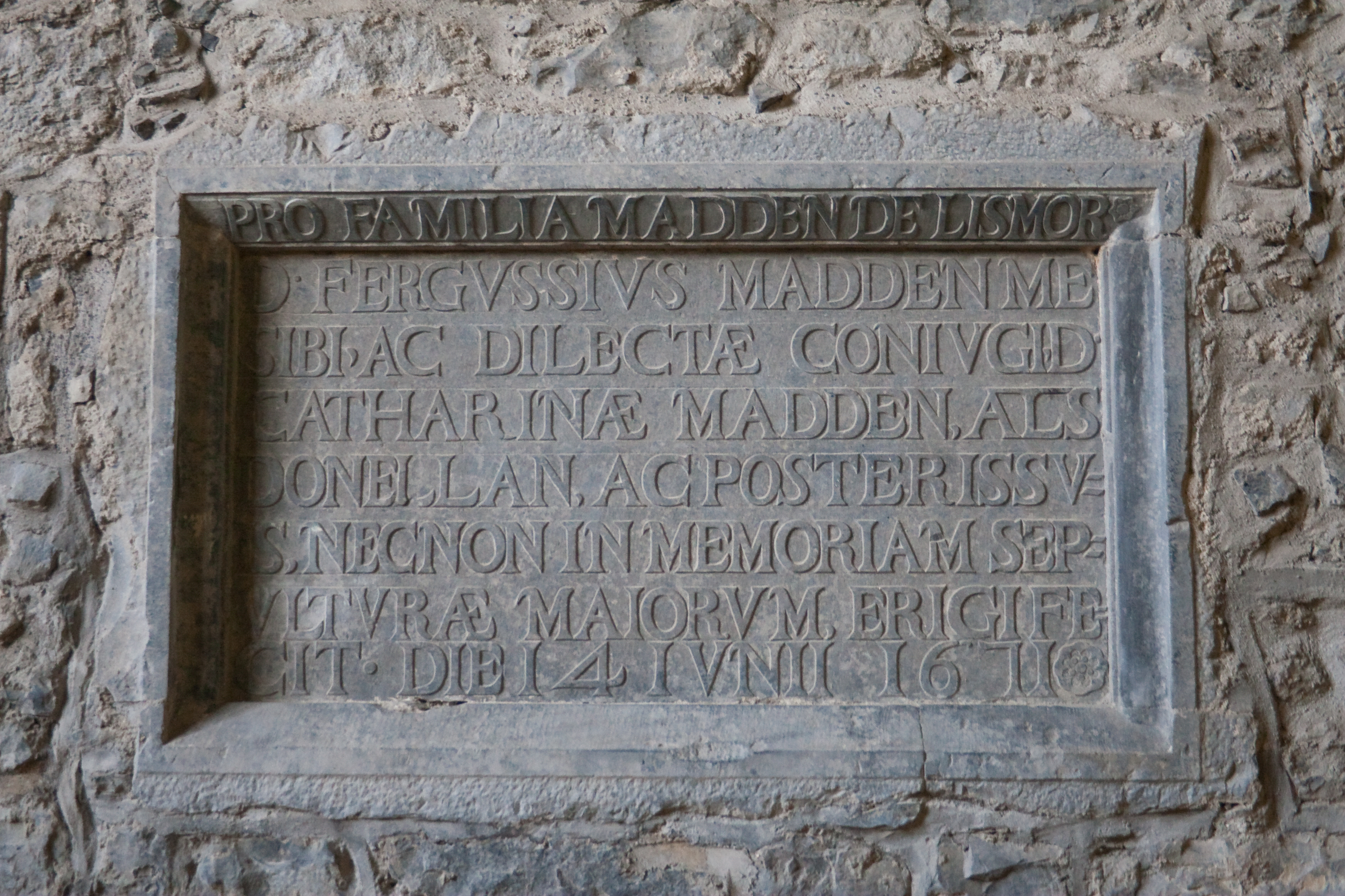 Meelick Friary, County Galway, Ireland Memorial plaque dedicated to the Lismore branch of the Madden family, dated 14 June 1671. According to Peter Harbison this is a classic example of the high quality achieved in the art of lettering by East Galway masons in the seventeenth century. (See Peter Harbison: A Thousand Years of Church Heritage in East Galway, ISBN 1-901658-58-9, p. 68.)